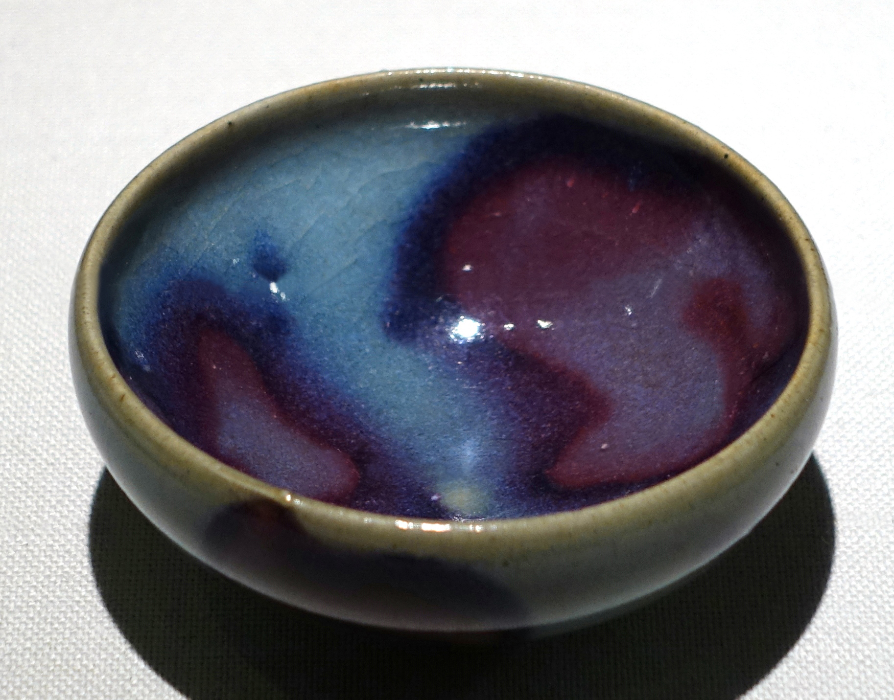 Exhibit in the Matsuoka Museum of Art - 5 Chome-12-6 Shirokanedai, Minato, Tokyo 108-0071, Japan.